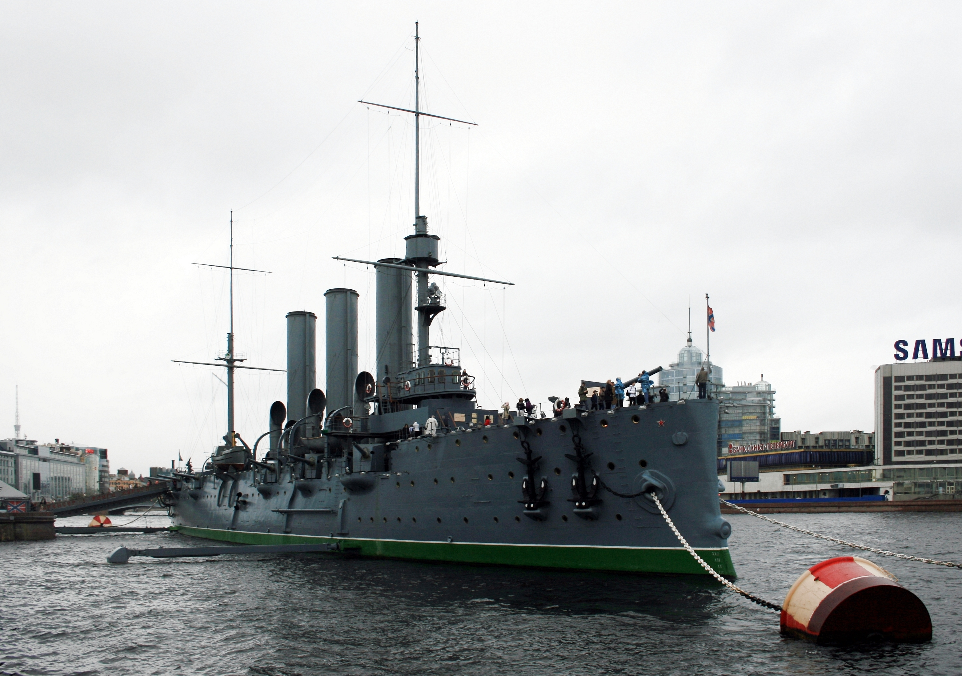 Russian protected cruiser Aurora, now a museum ship in St. Petersburg